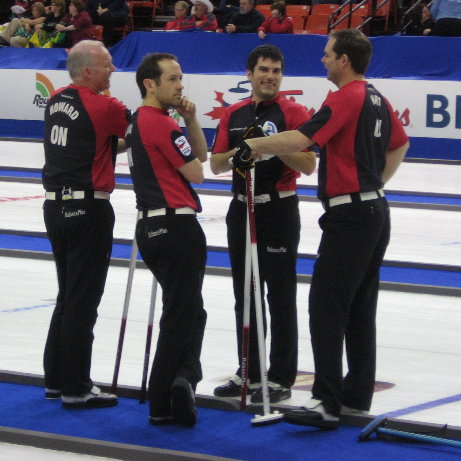 Ontario Team, 2010 Tim Hortons Brier, Halifax Nova Scotia